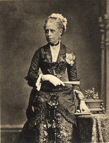 Ida Marie Bille, née countess Bille-Brahe (1822-1902), Danish noblewoman and over-housemaster for Queen Louise of Denmark